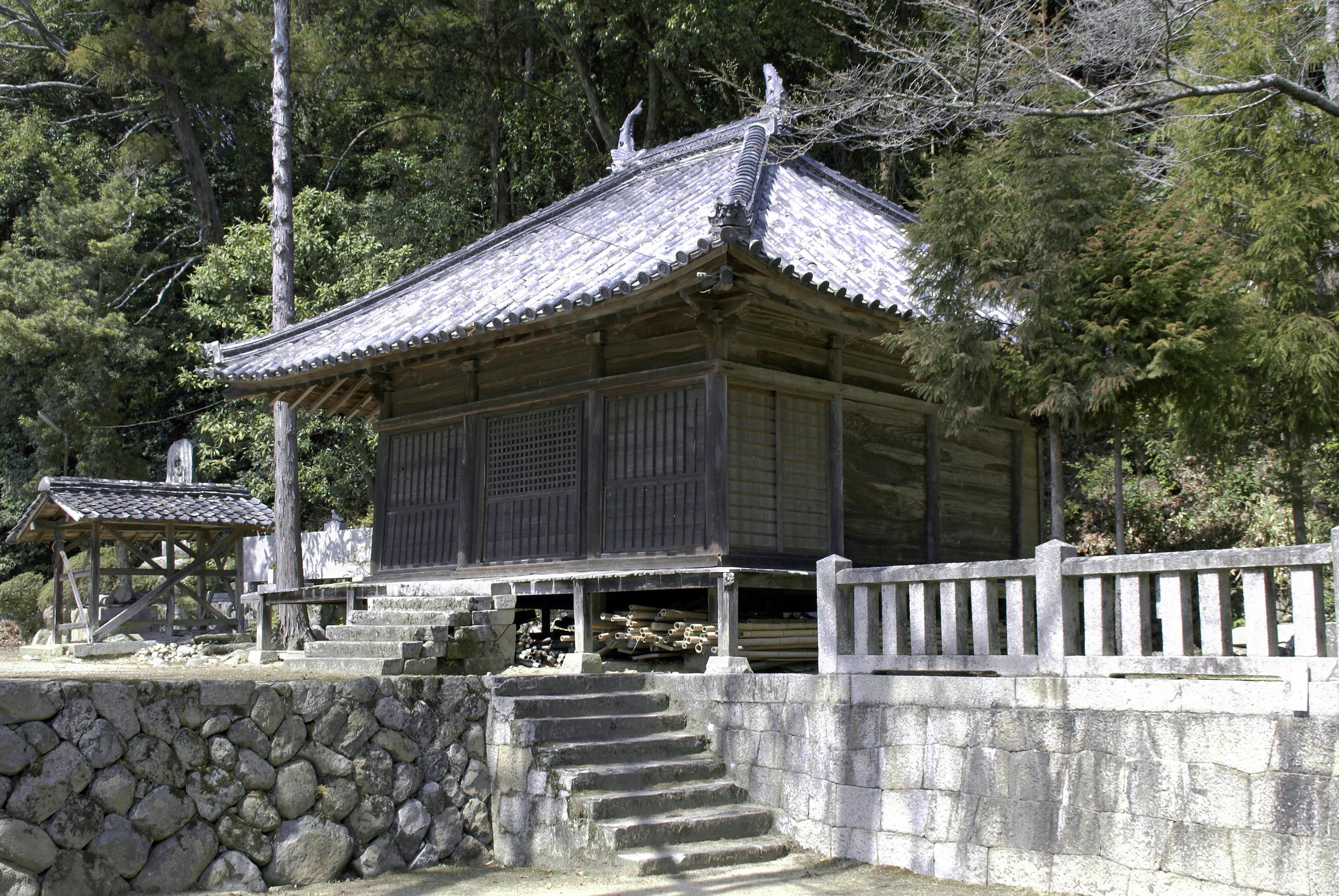 Rokujo_hachiman-jinja in Kobe, Hyogo prefecture, Japan